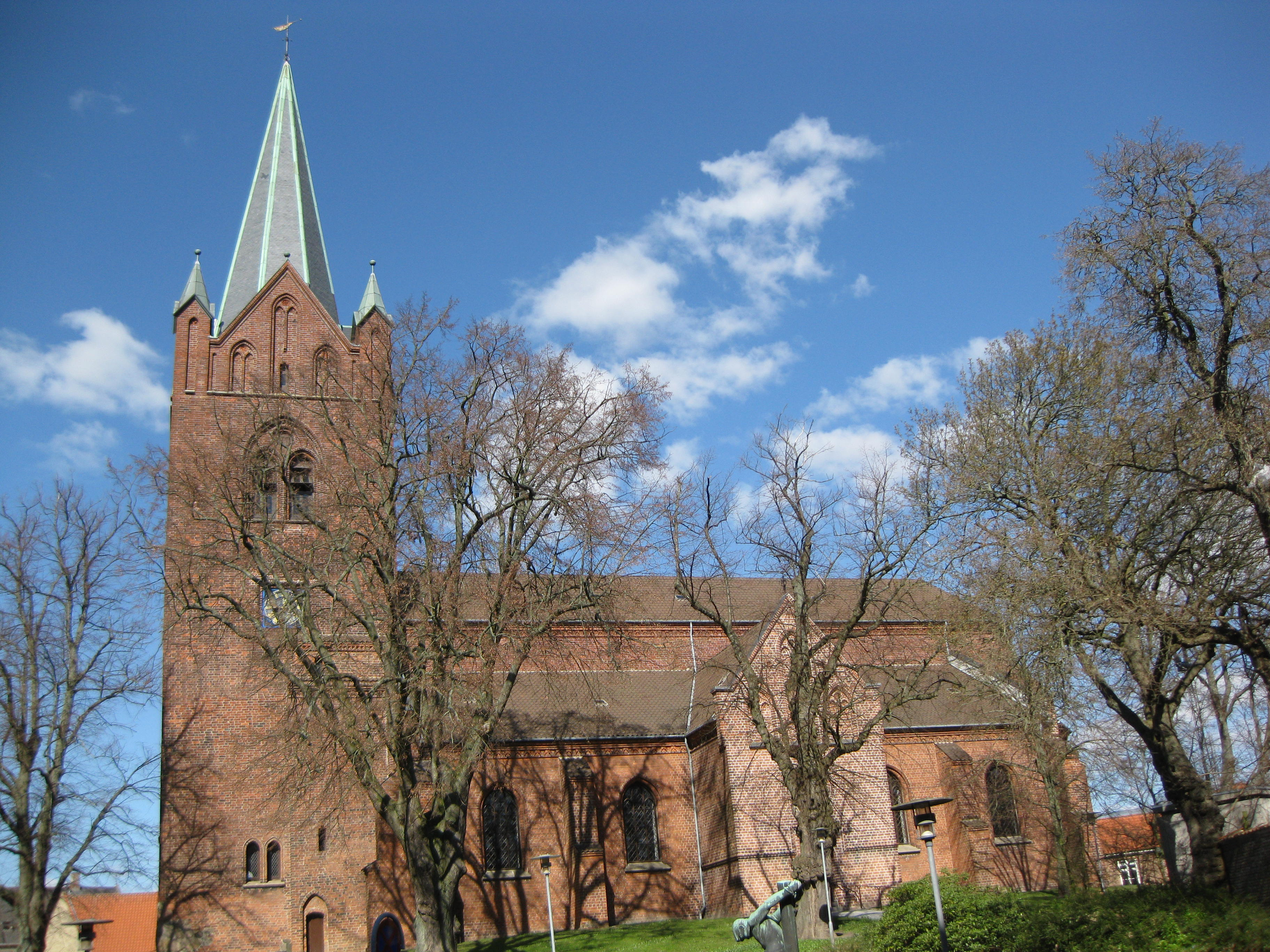 The church "Sankt Mikkels Kirke" in Slagelse. The town is located in West Zealand, Denmark.